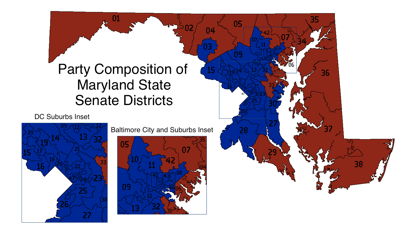 Party Composition of Maryland State Senate Districts